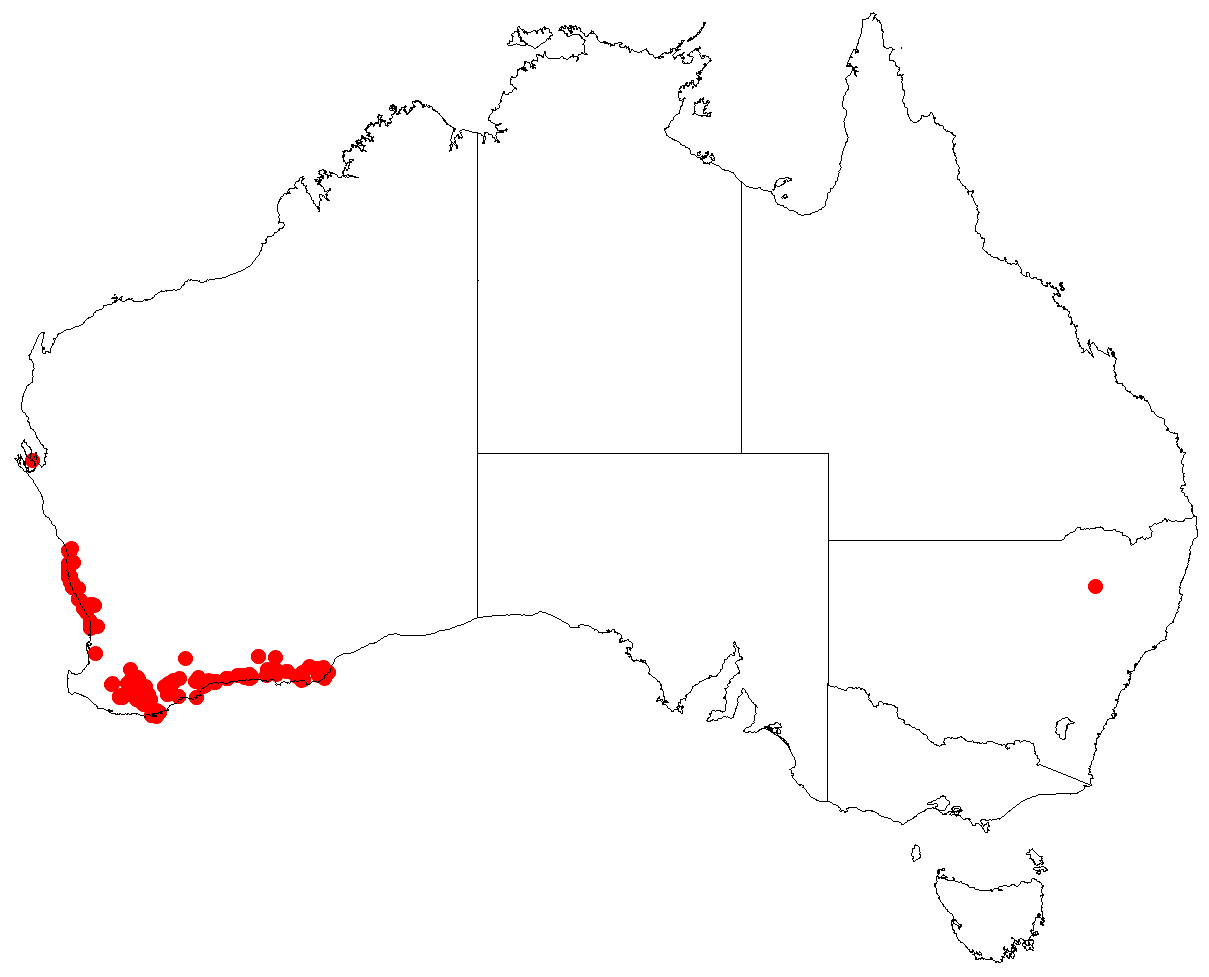 Allocasuarina lehmanniana Occurrence data downloaded from Australasian Virtual Herbarium on 4 July 2018